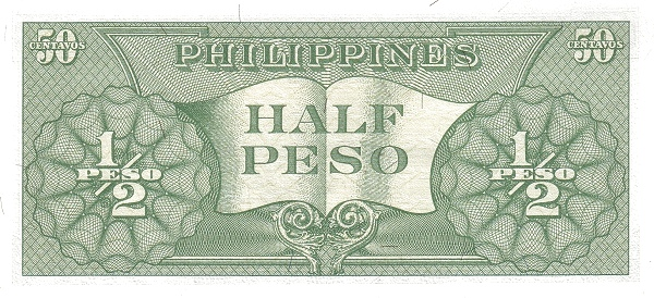 Philippine English Series Half Peso Banknote (Obverse)